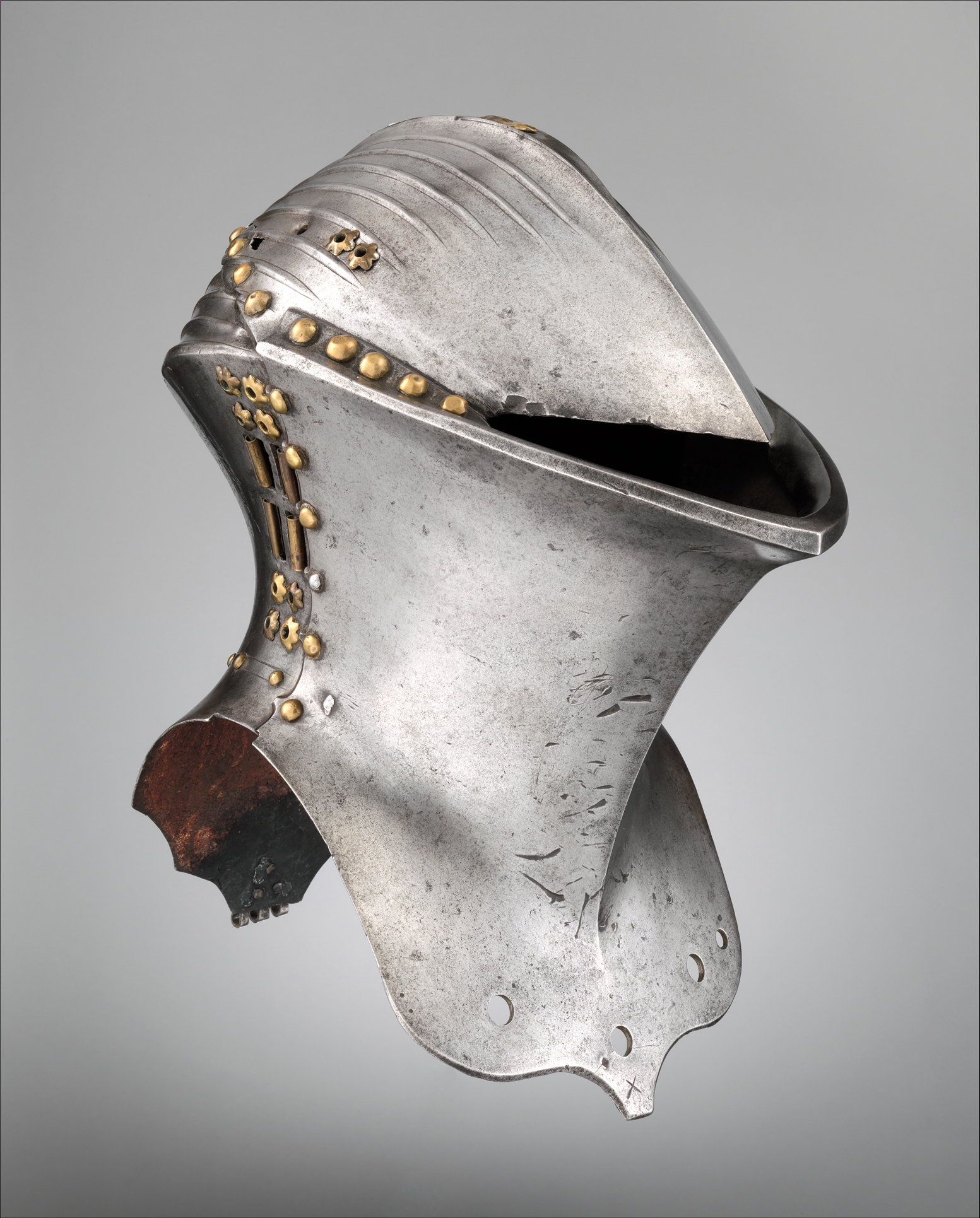 German, probably Nuremberg; Helm for the joust of peace (Stechhelm); Helmets